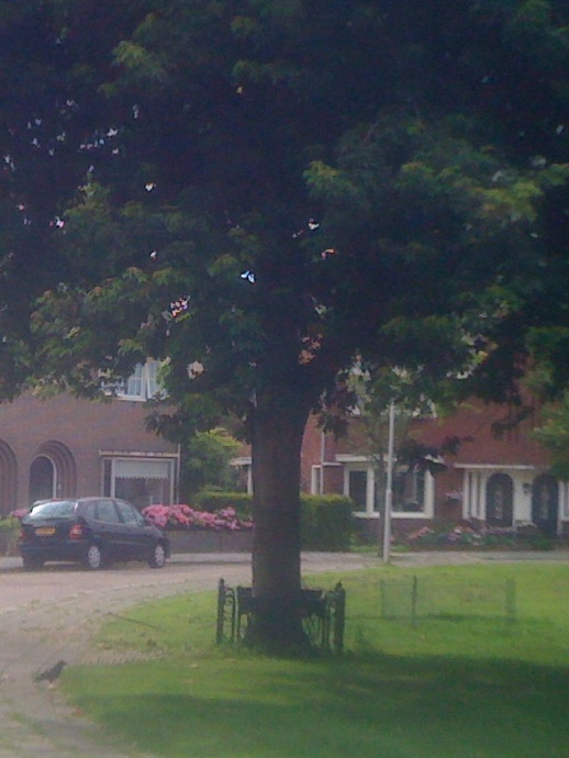 The Tree of Freedom, as a remembrance of the liberation of Sneek during the WWII.